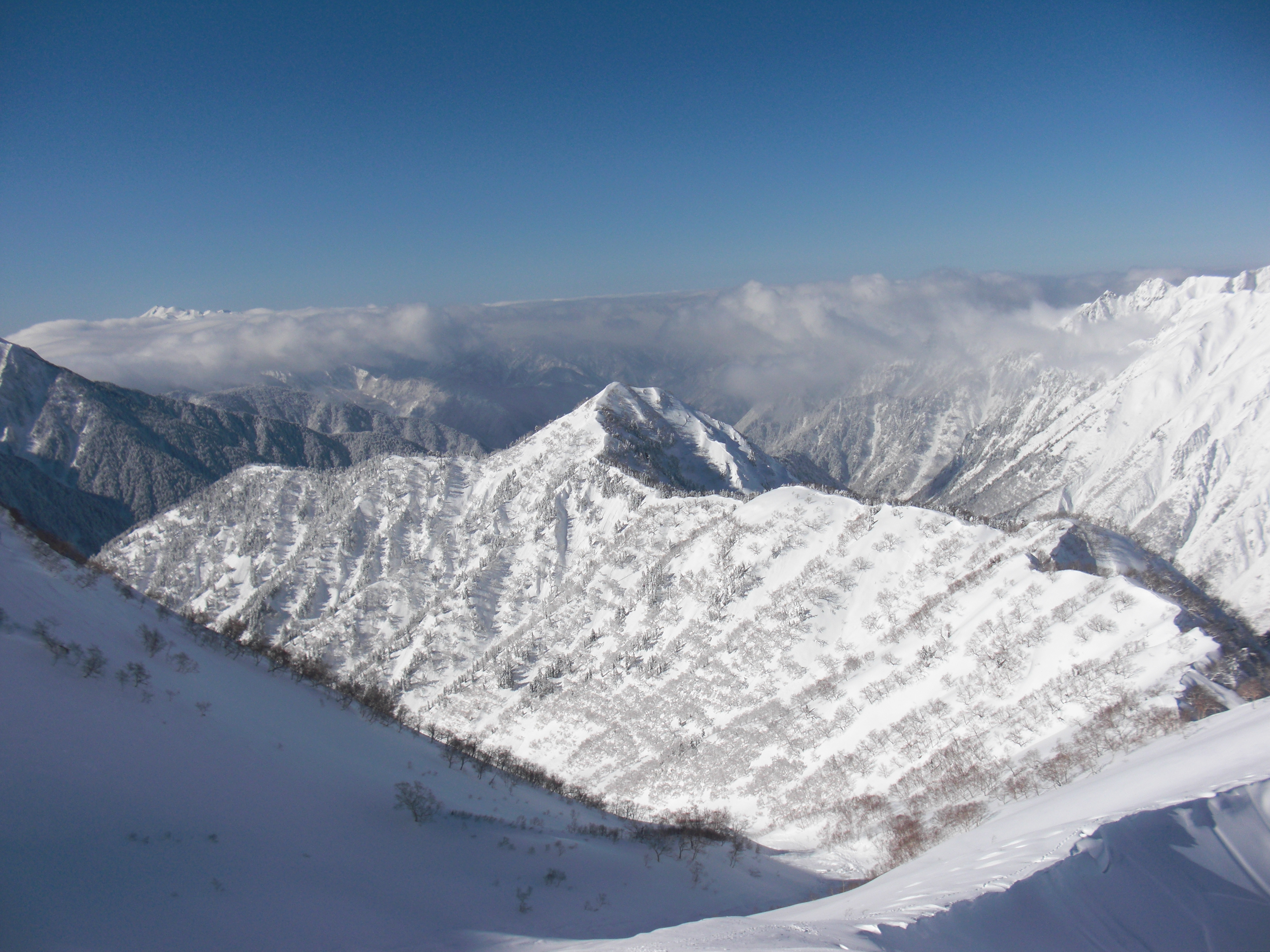 Mount Okumaru in snow from Senjozawa col in Hida Mountains, Japan.